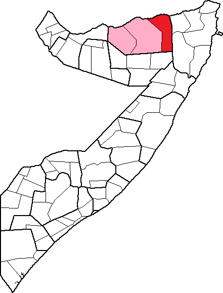 Location of the Laasqoray (Las Qoray, Las Khorey) district in the Sanaag region, Somalia. Boundaries reflect those endorsed by the Republic of Somalia in 1986.